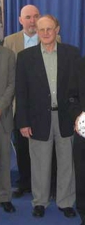 Harry Gauss (left) & Armand Di Fruscio (right).